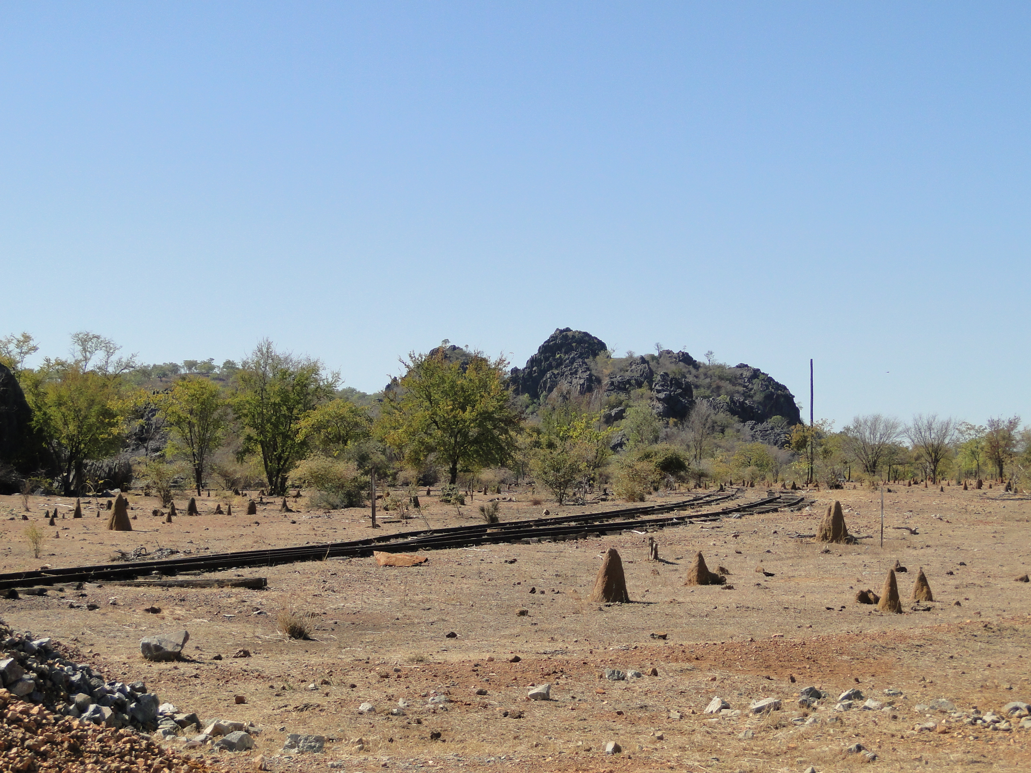 View of the abandoned railway line at Mungana, Queensland, Australia. Some of the unusual limestone outcrops can be seen in the background.